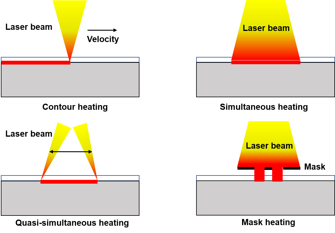 This work is based on Figure 26.34. In Benatar, Avraham (2017). Applied Plastics Engineering Handbook (Second Edition). William and Adrew. pp. 575-591